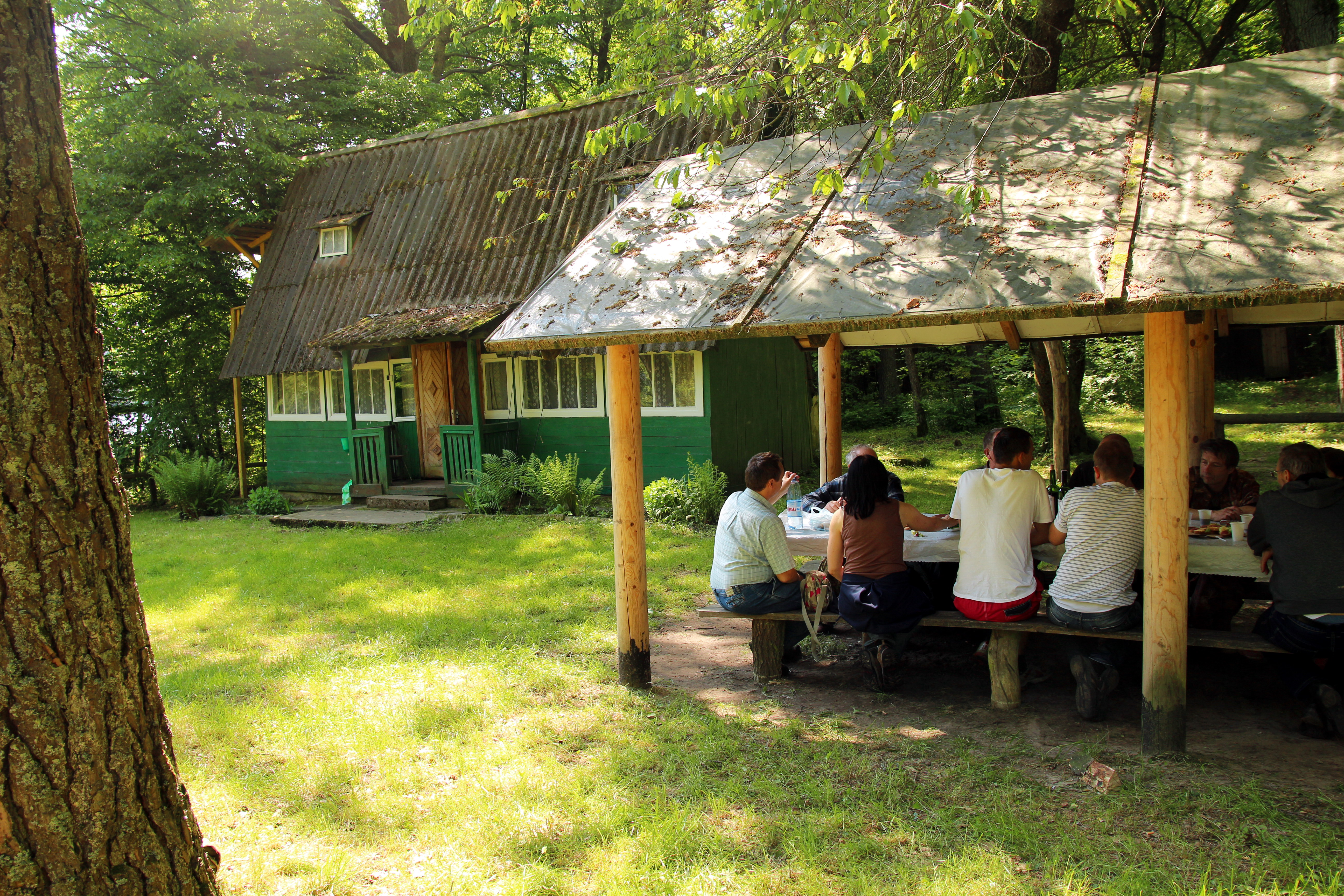 Ecology-education center "Hutsulka" of Nature Reserve "Roztochchia"